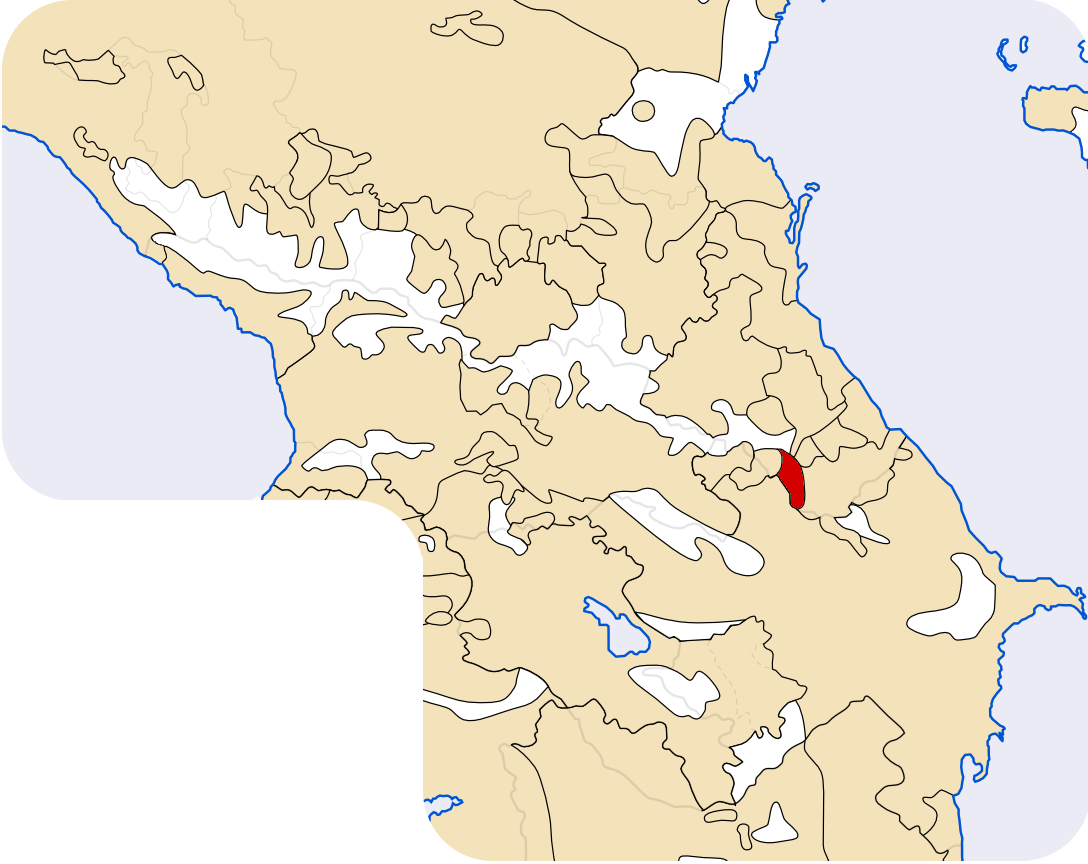 Location map of the Rutuls.